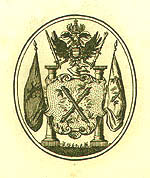 Coat of arms of Ostend Company printed on and cutted from its share. Copper engraving, 1723.